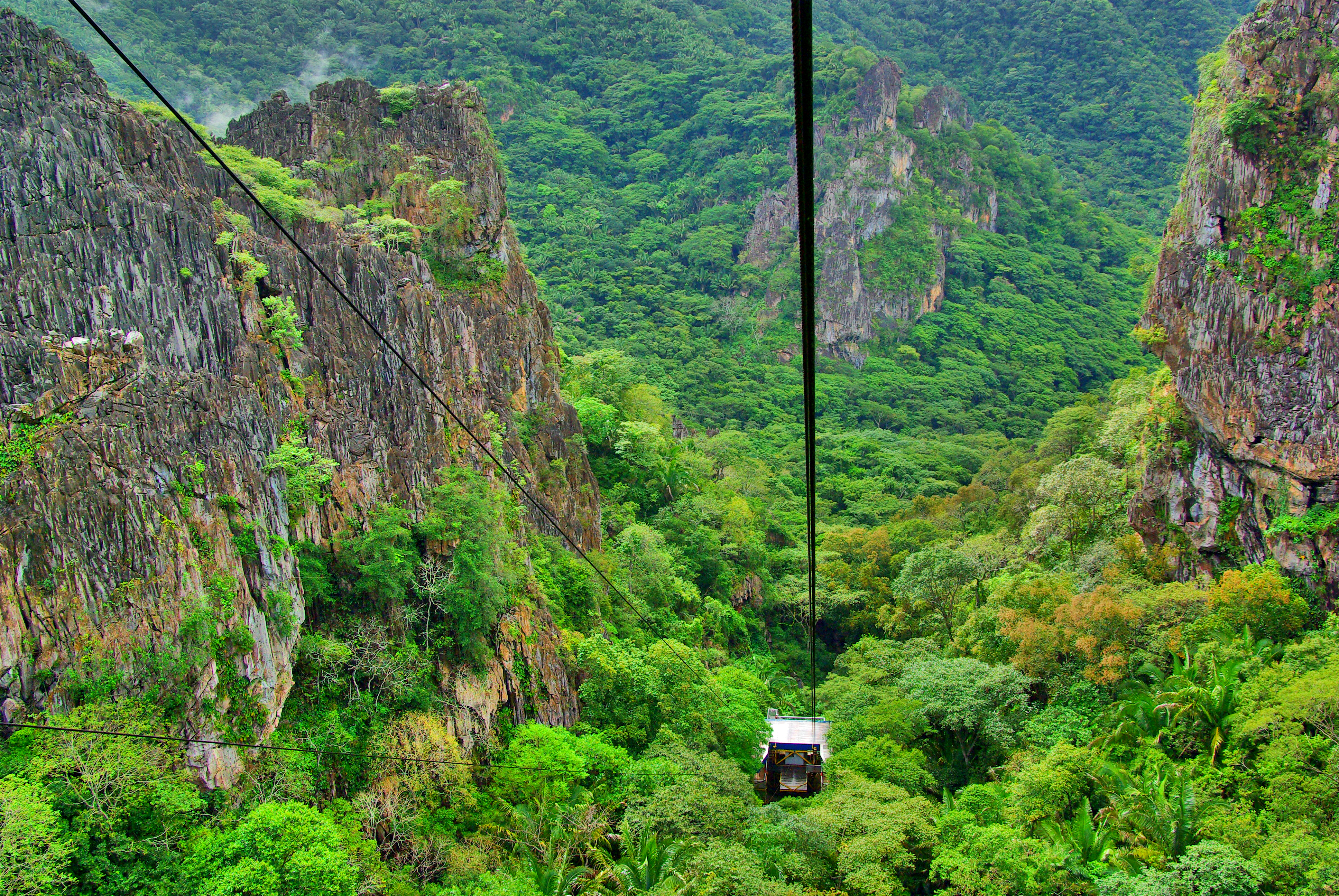 Ubajara (1)